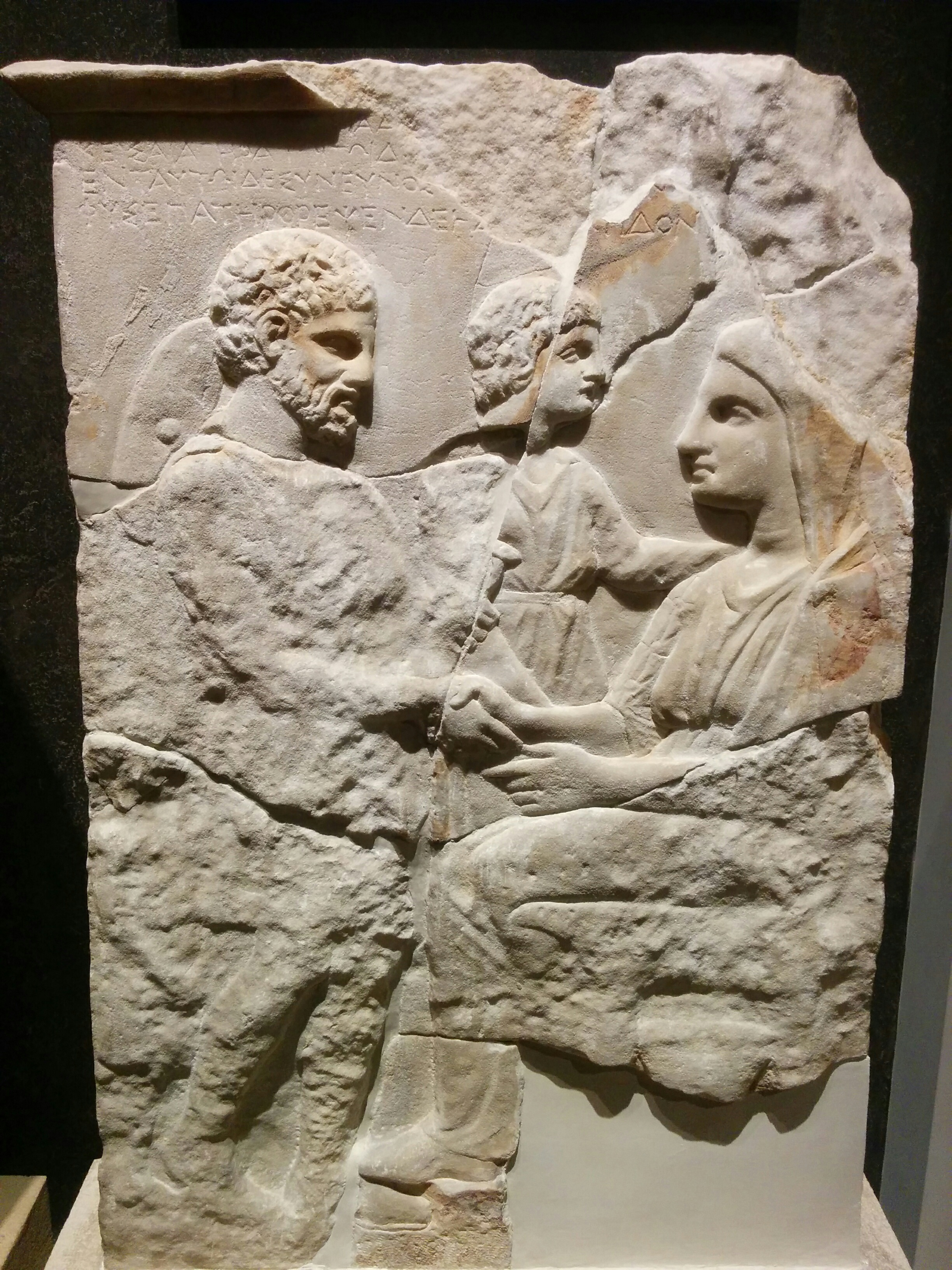 A relief inscribed stele (mid 4th century B.C., Vergina) depicting parents and daughter. An epigram is preserved on the upper part. Archaeological Museum of Thessaloniki